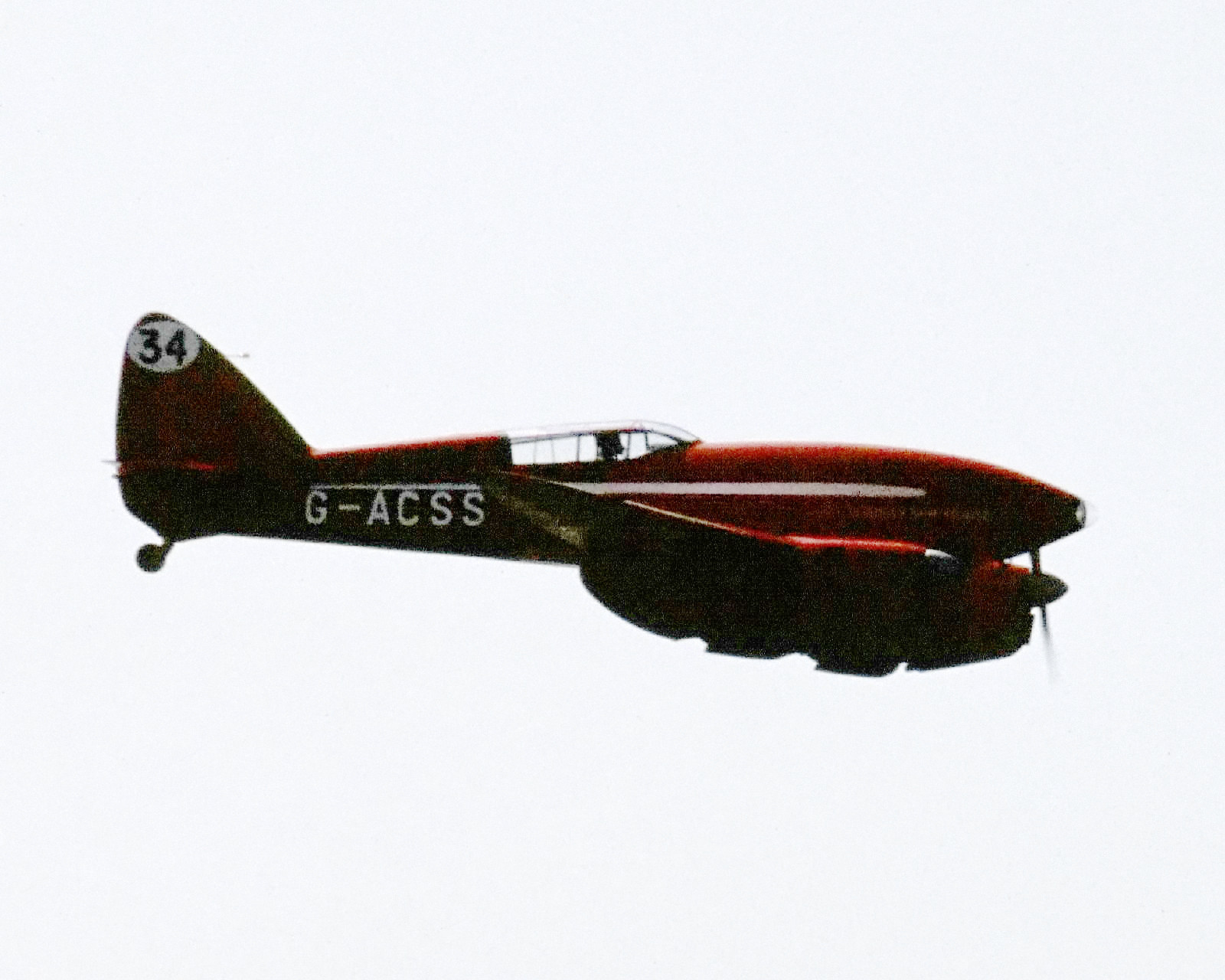 DH88 Comet racer Grosvenor House flying again, 1980s.